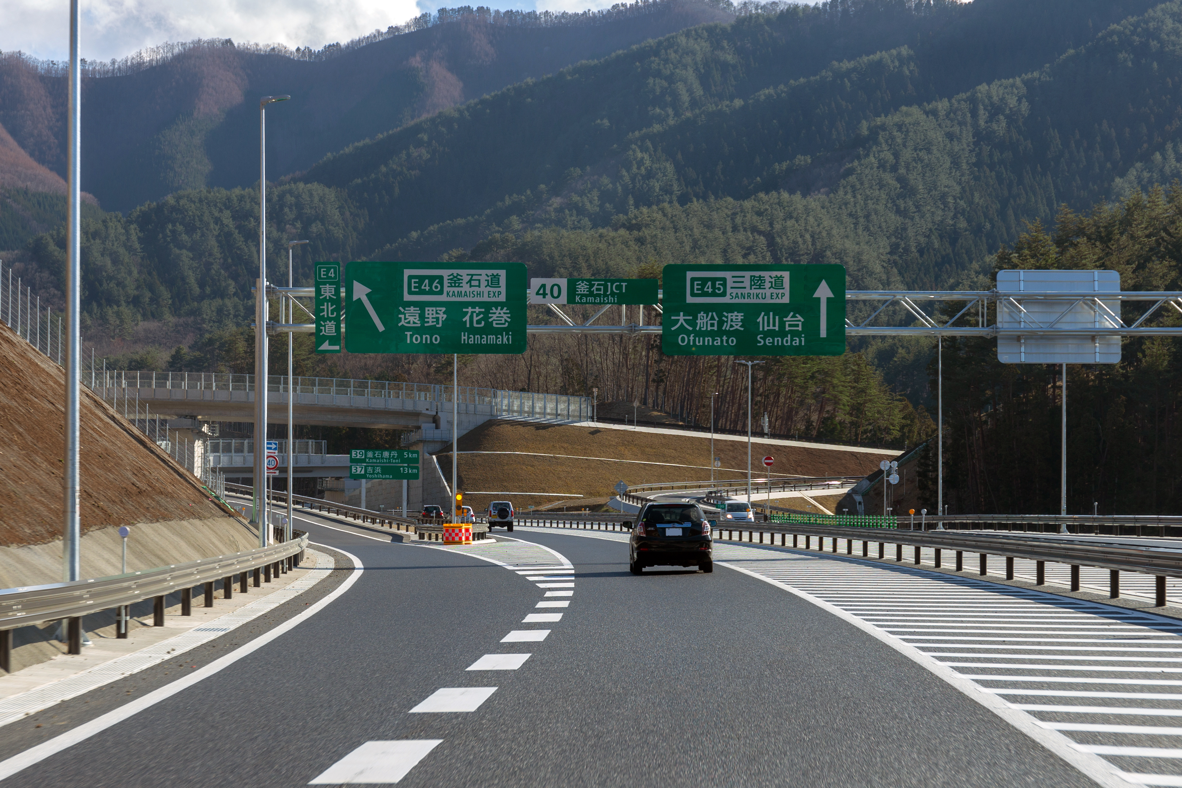 Kamaishi Junction on the Sanriku Expressway southbound line in Kamaishi City, Iwate Prefecture, Japan